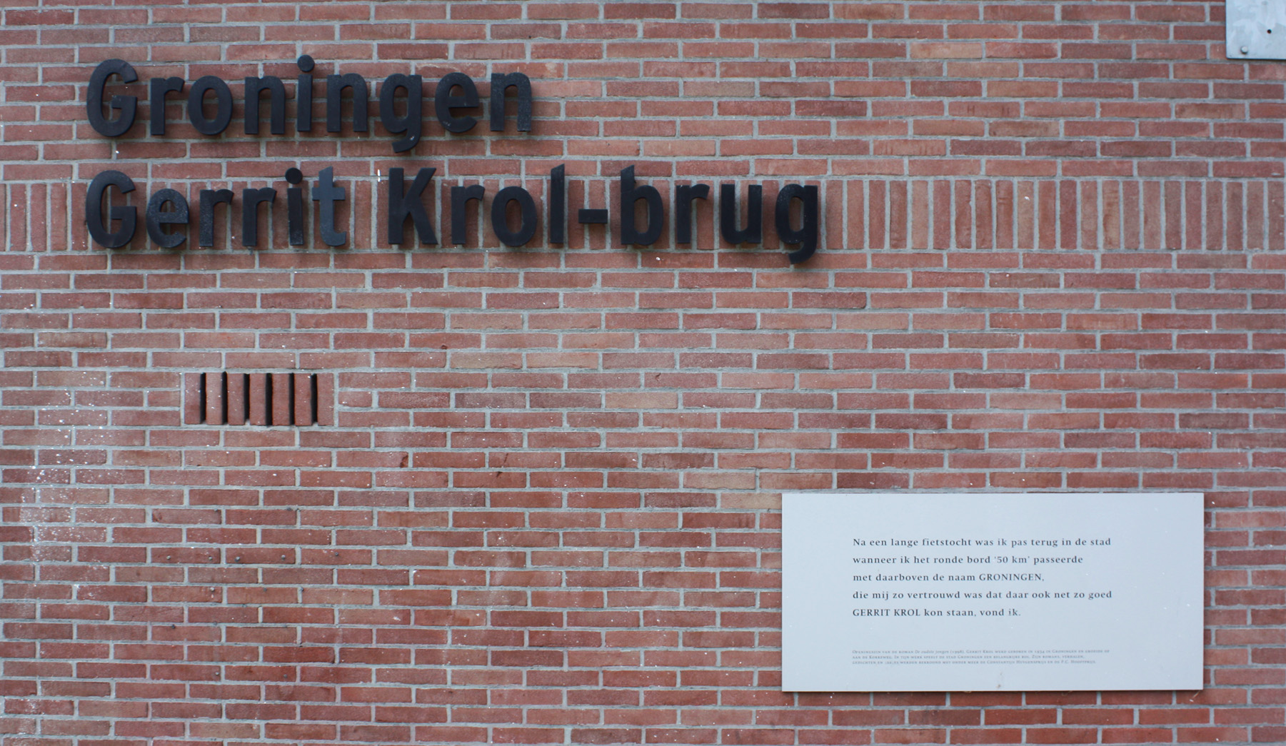 Art on the Gerrit Krol bridge in Groningen, the Netherlands. Text by Gerrit Krol, design by Harry Fierkens.